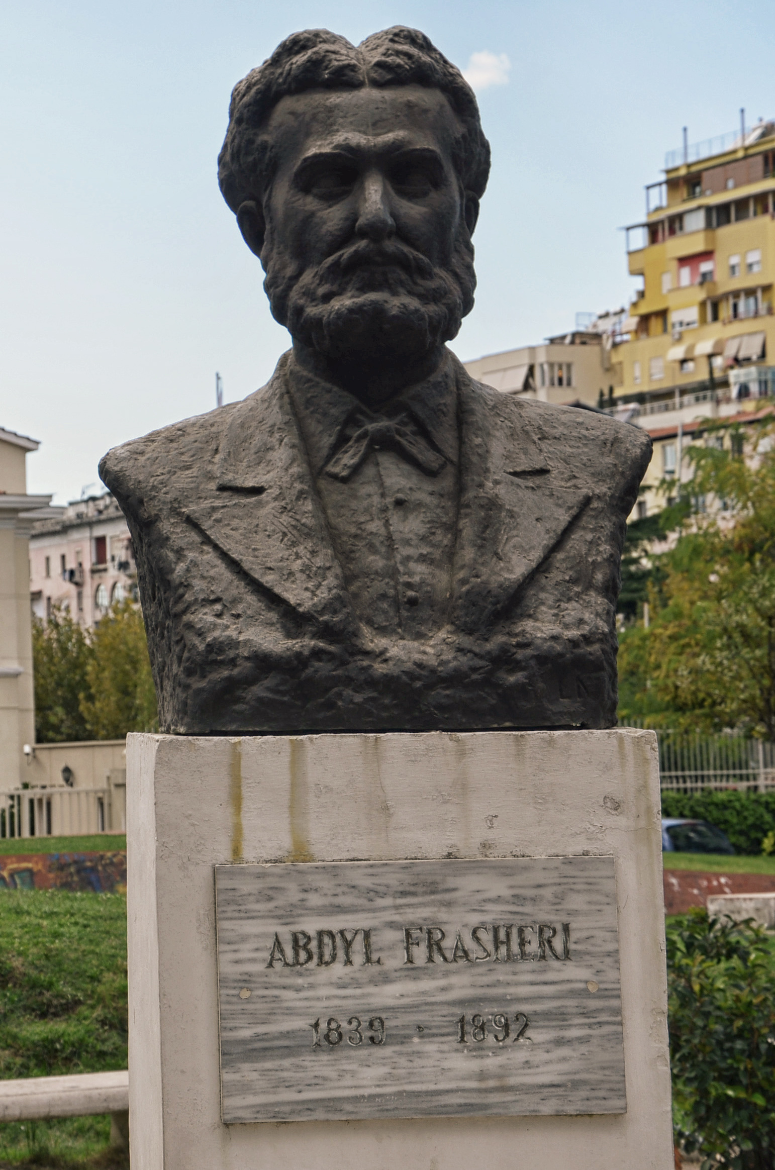 Bust of Abdyl Frashëri in Tirana, Albania